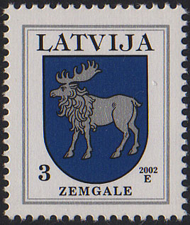 Latvian postage stamp definitive depicting the Zemgale region coat of arms.